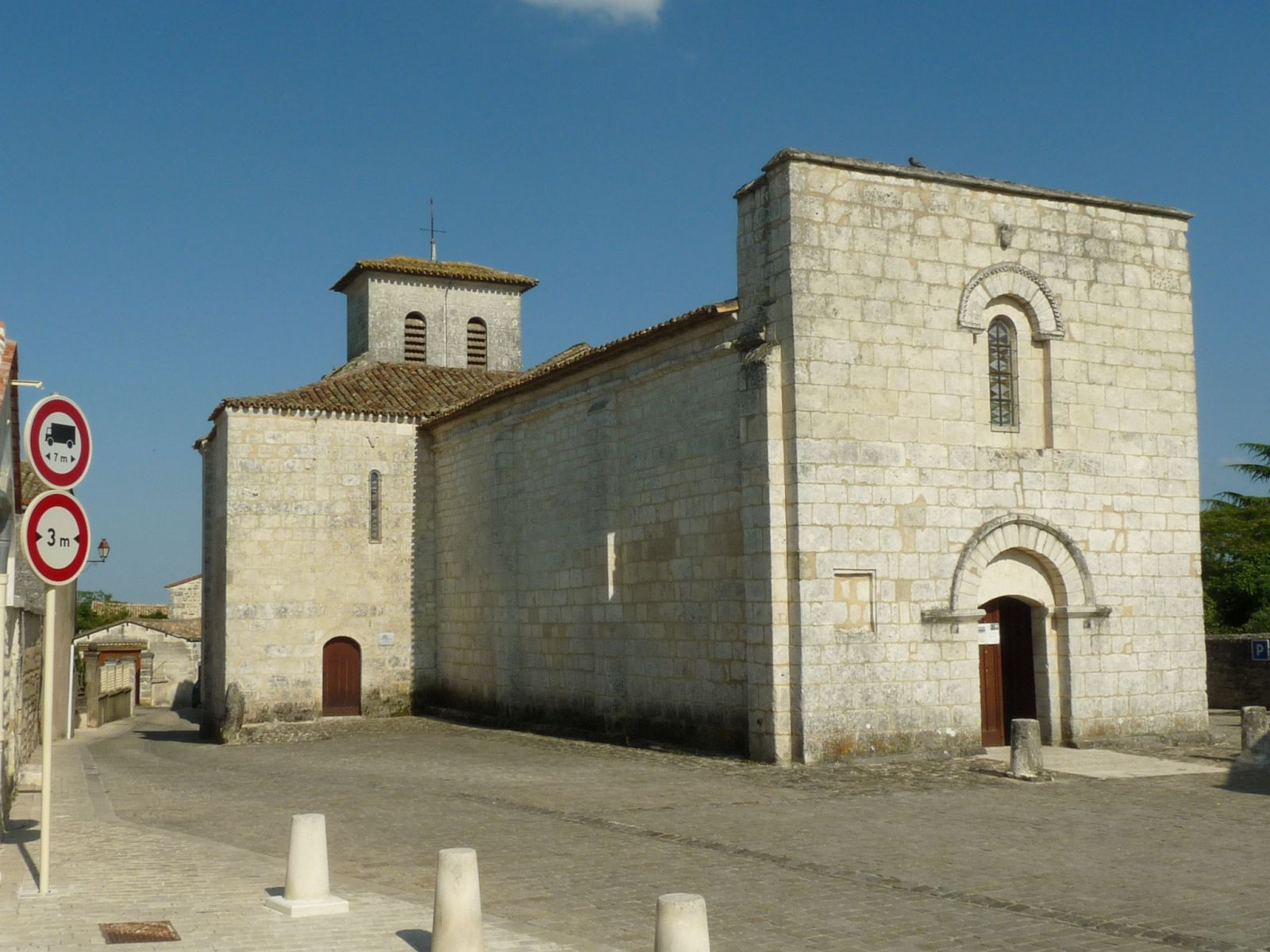 church of Soyaux, Charente, SW France